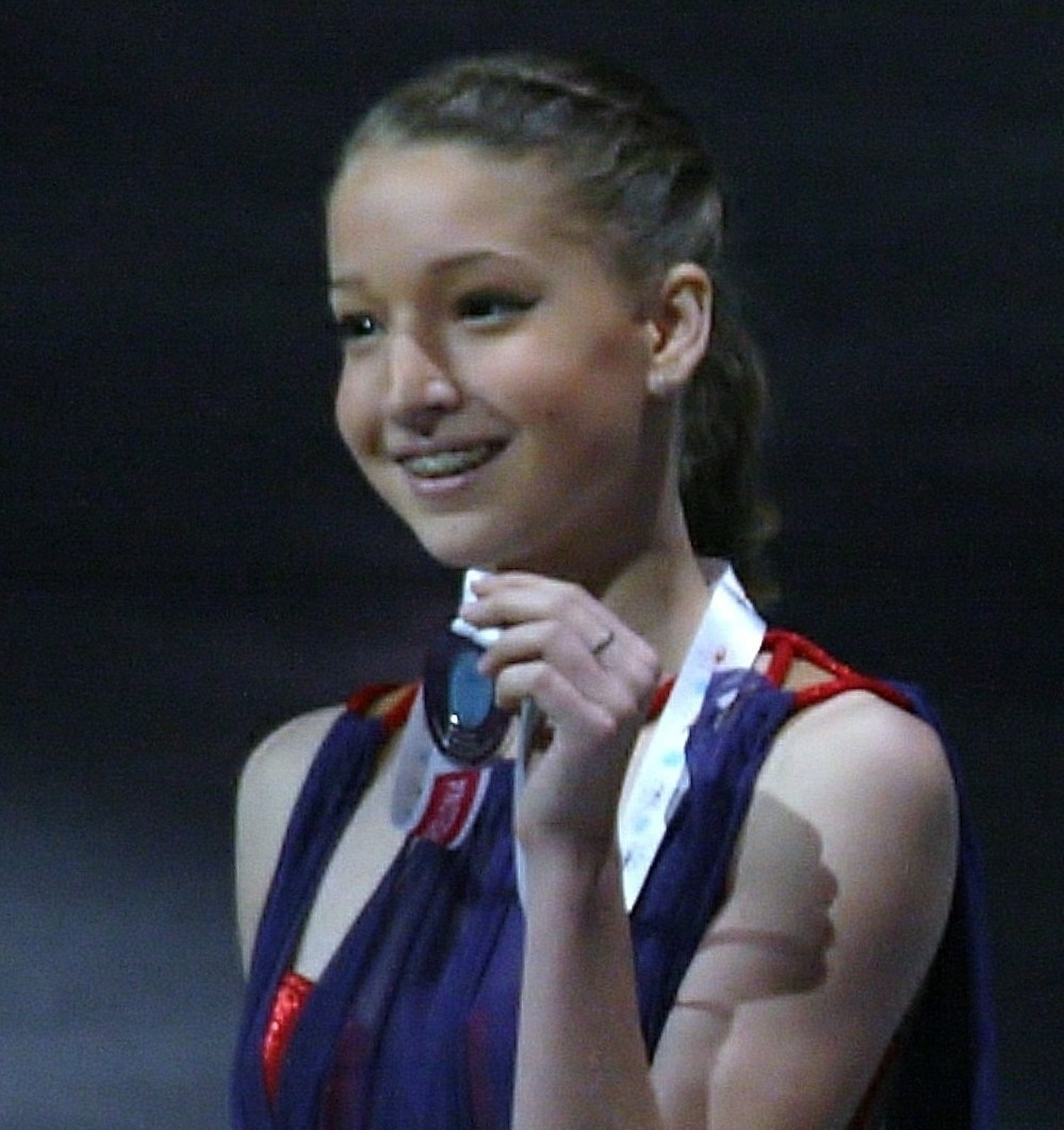 Maria Sotskova at the Junior Grand Prix Final in December 2015.